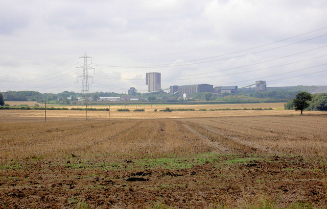 Do we still mine coal? Maltby colliery in the background.